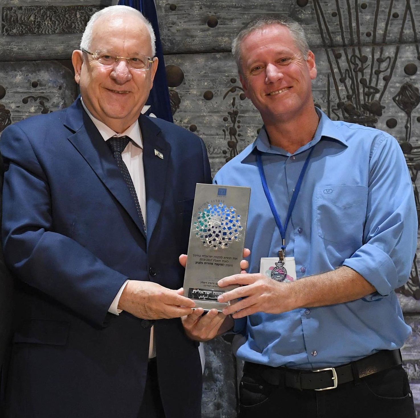 For the third consecutive year, President Reuven Rivlin has granting the "President's Award for Education for Partnership" for the year 2016/17, as part of the "Israel Hope in Education" conference, in cooperation with the Minister of Education and the Lautman Foundation, Wednesday, November 22, 2017. Photo Credit: Mark Neyman / GPO.